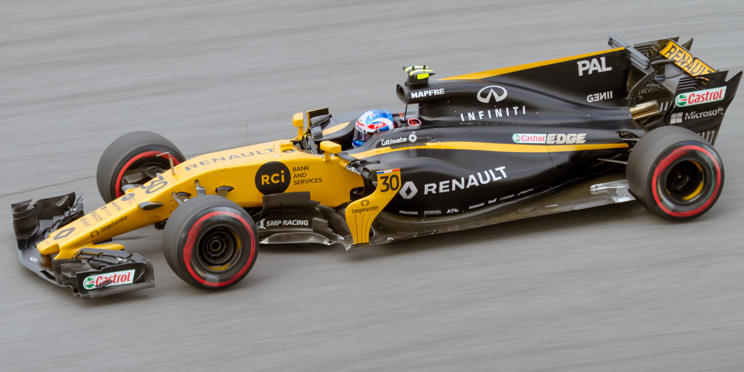 Formula One 2017 Rd.15 Malaysian GP: Jolyon Palmer (Renault)